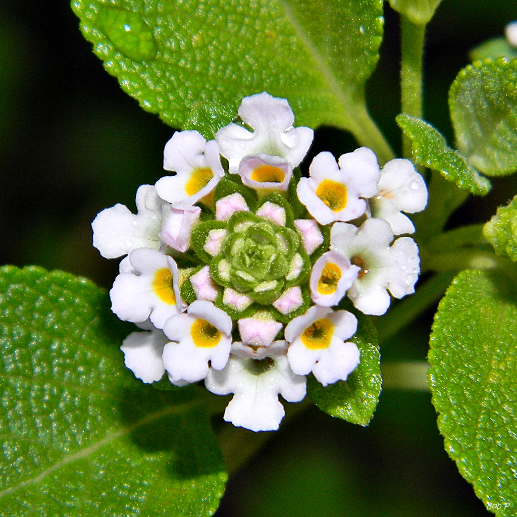 Another interesting native growing along the Juno Dunes Natural Area East trail near A1A and the beach. This cool Lantana is also called buttonsage. I think I had to use the flash. (This is the native cousin of the invasive, non-native orange Lantana camara.)